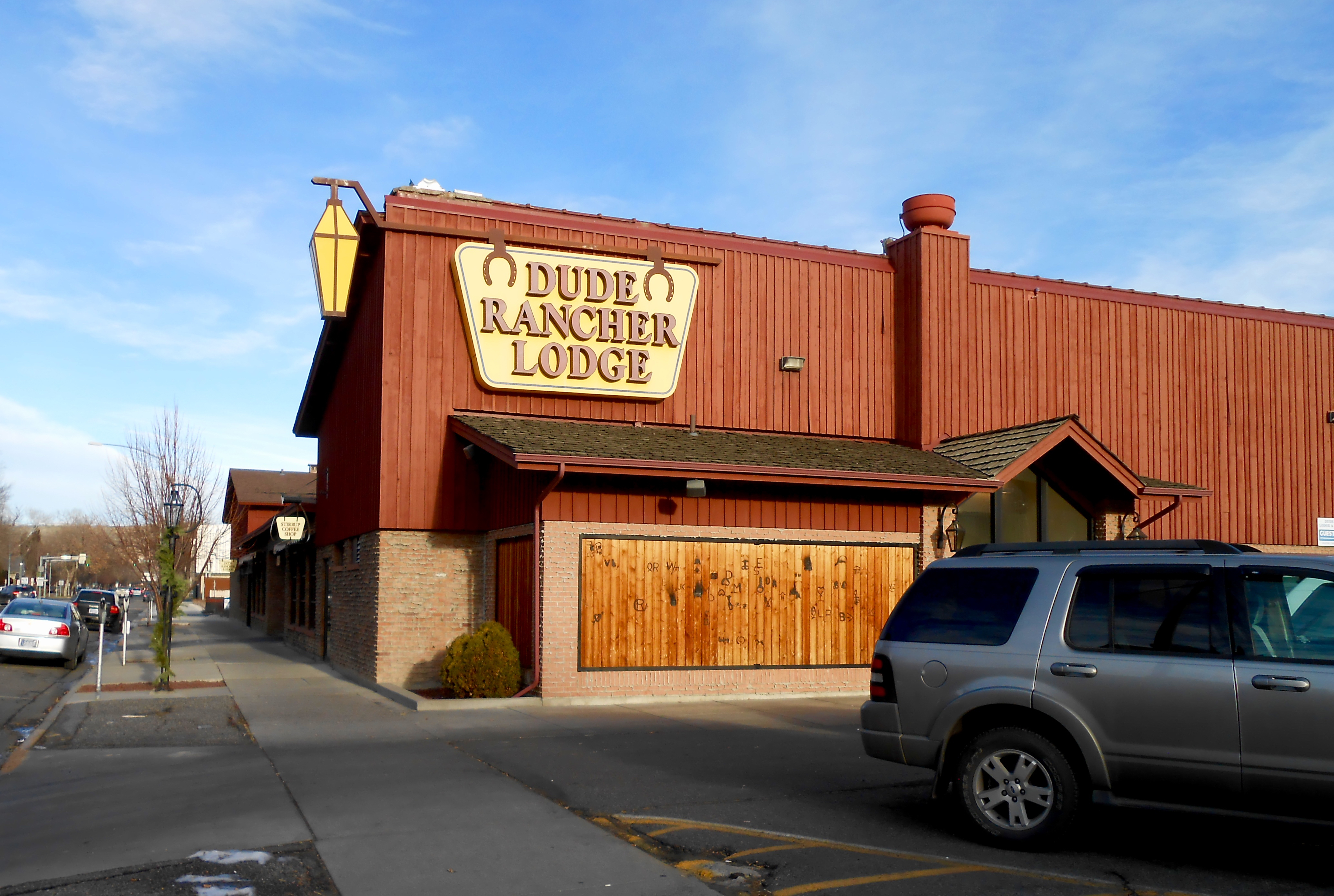 South side of the Dude Rancher Lodge in Billings, Montana. Branding wall visible. Motel is on the National Register of Historic Places